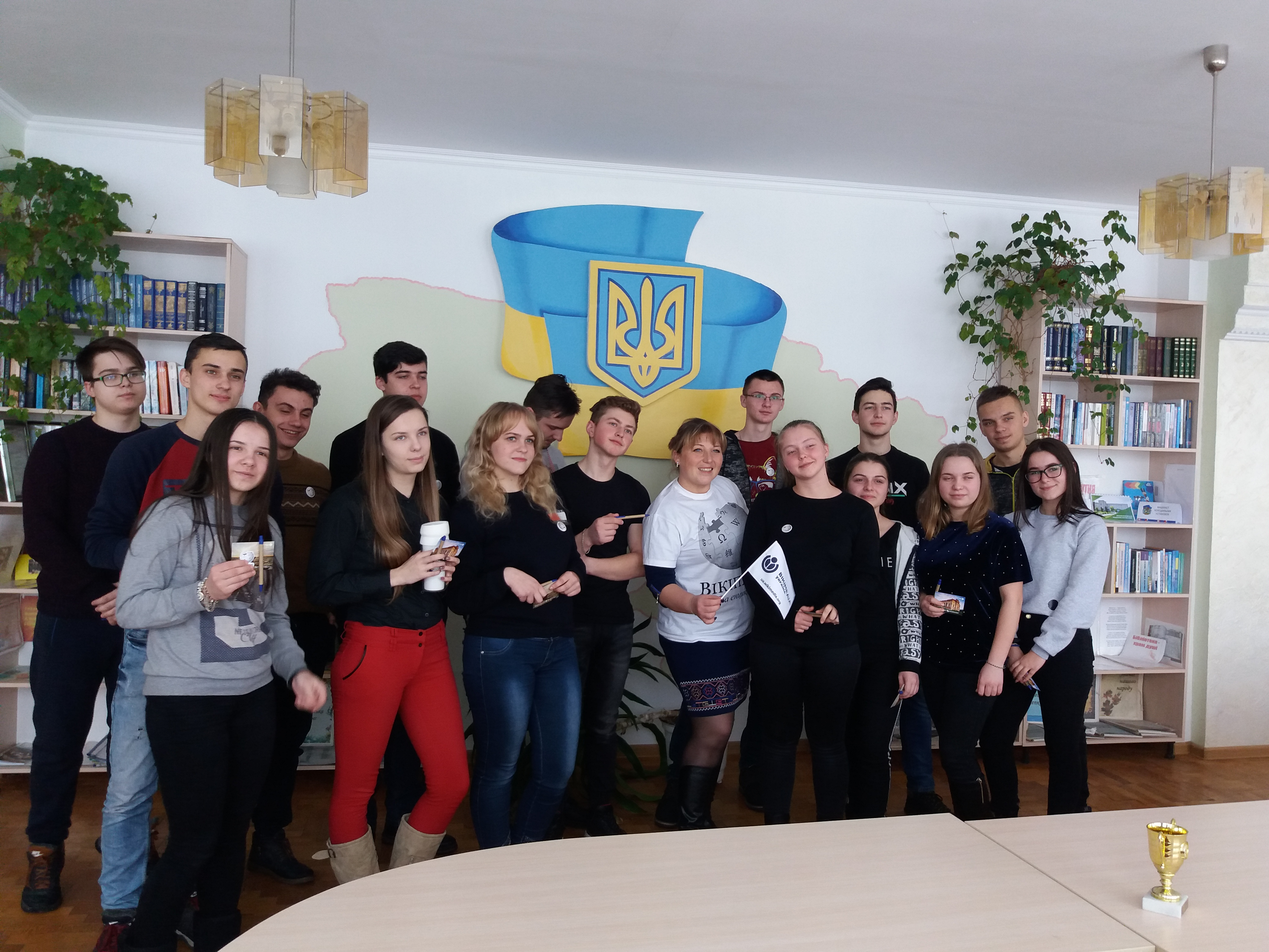 Проведення Вікімарафону 2019 в ДНЗ Чортківське ВПУ